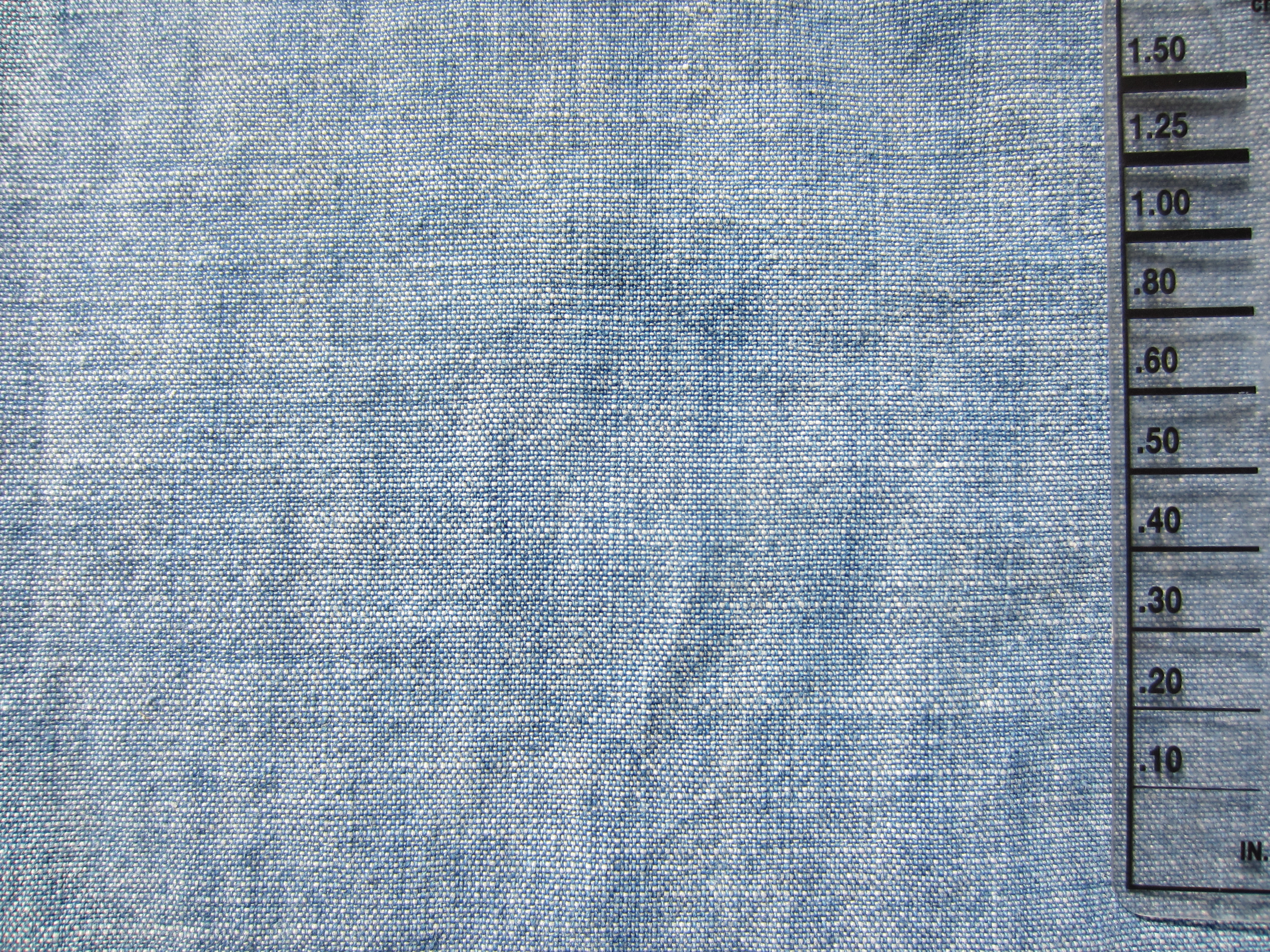 Example of blue, cotton chambray cloth. Cloth has been washed. Scale shown in millimeters.